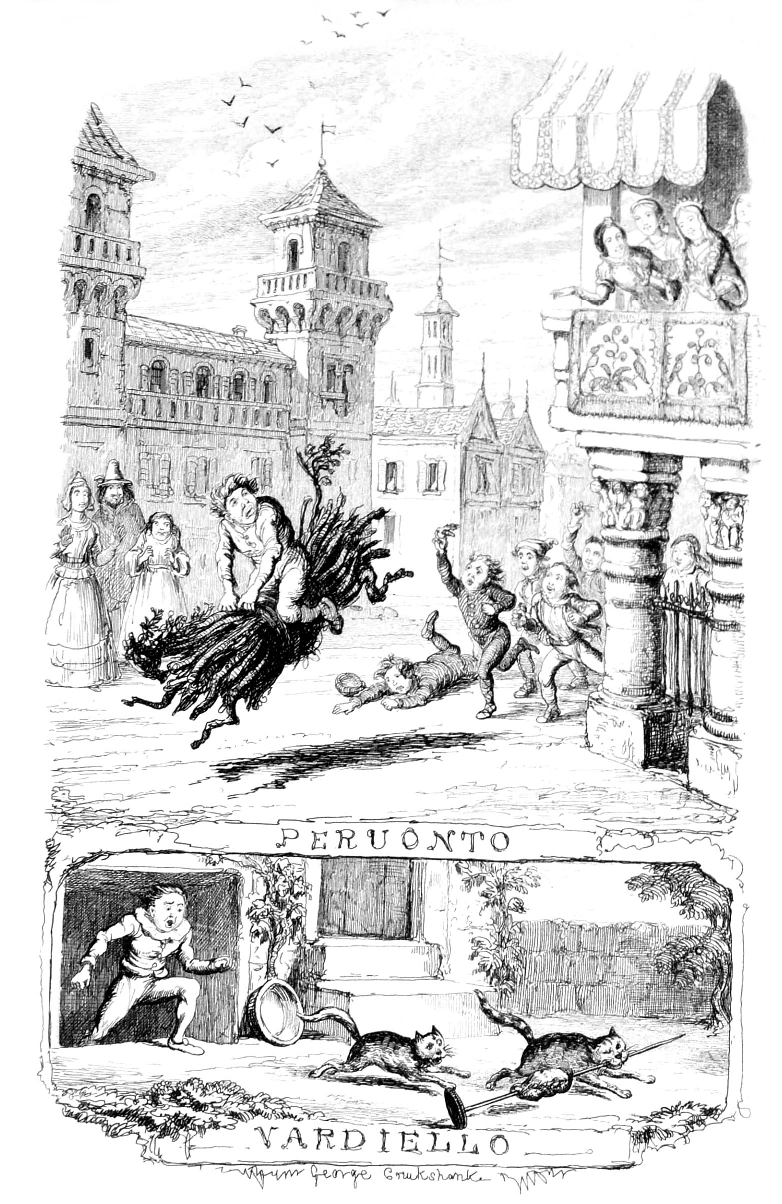 An illustration to Giambattista Basile's "Pentamerone"